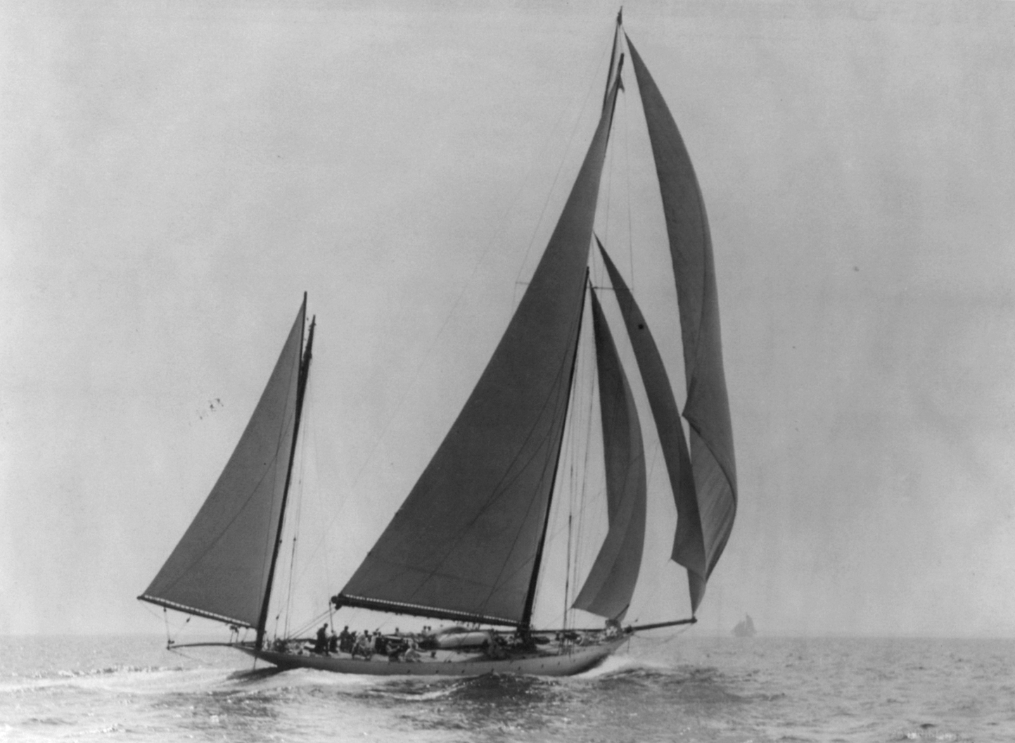 Royal Phelps Carroll's 85ft yacht Navahoe (Nathanael Greene Herreshoff design, 1893), recently converted to a yawl. New York Times - Navahoe Tried in New Rig